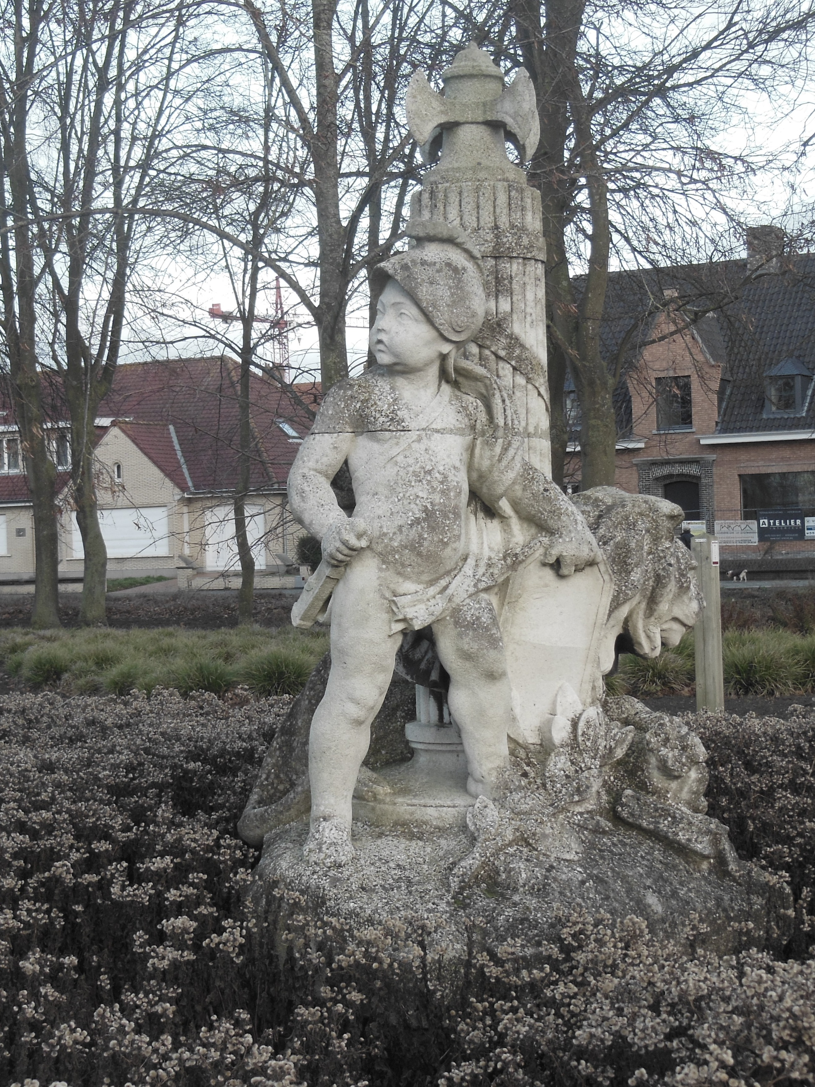 Statue of a child and the Belgian lion protecting the Belgian National Bank